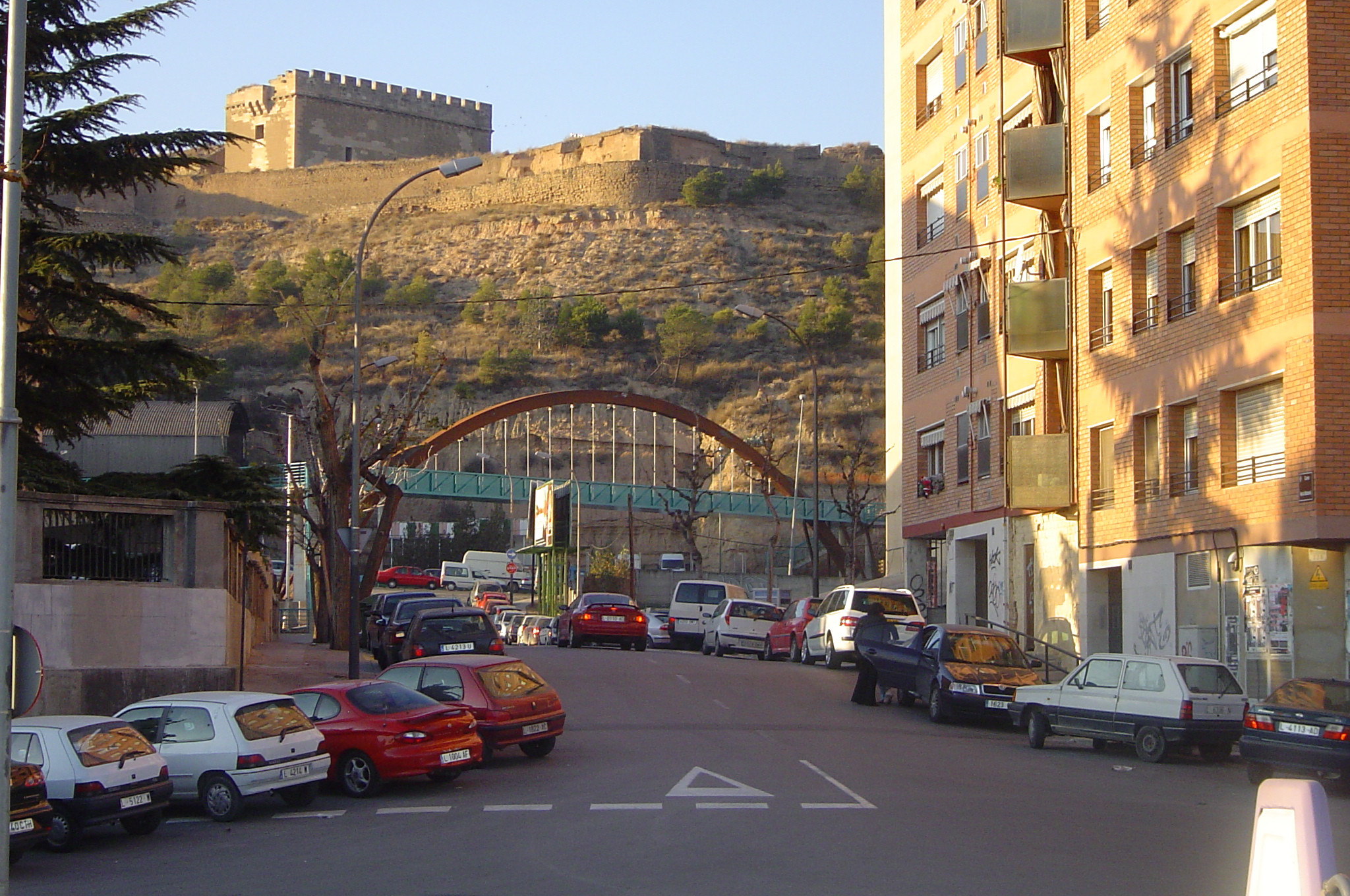 View on the 'other' castle of Lleida.